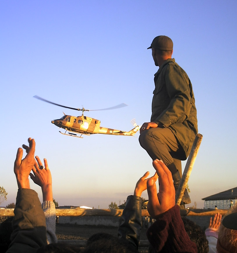 Ahmadinejad in juybar